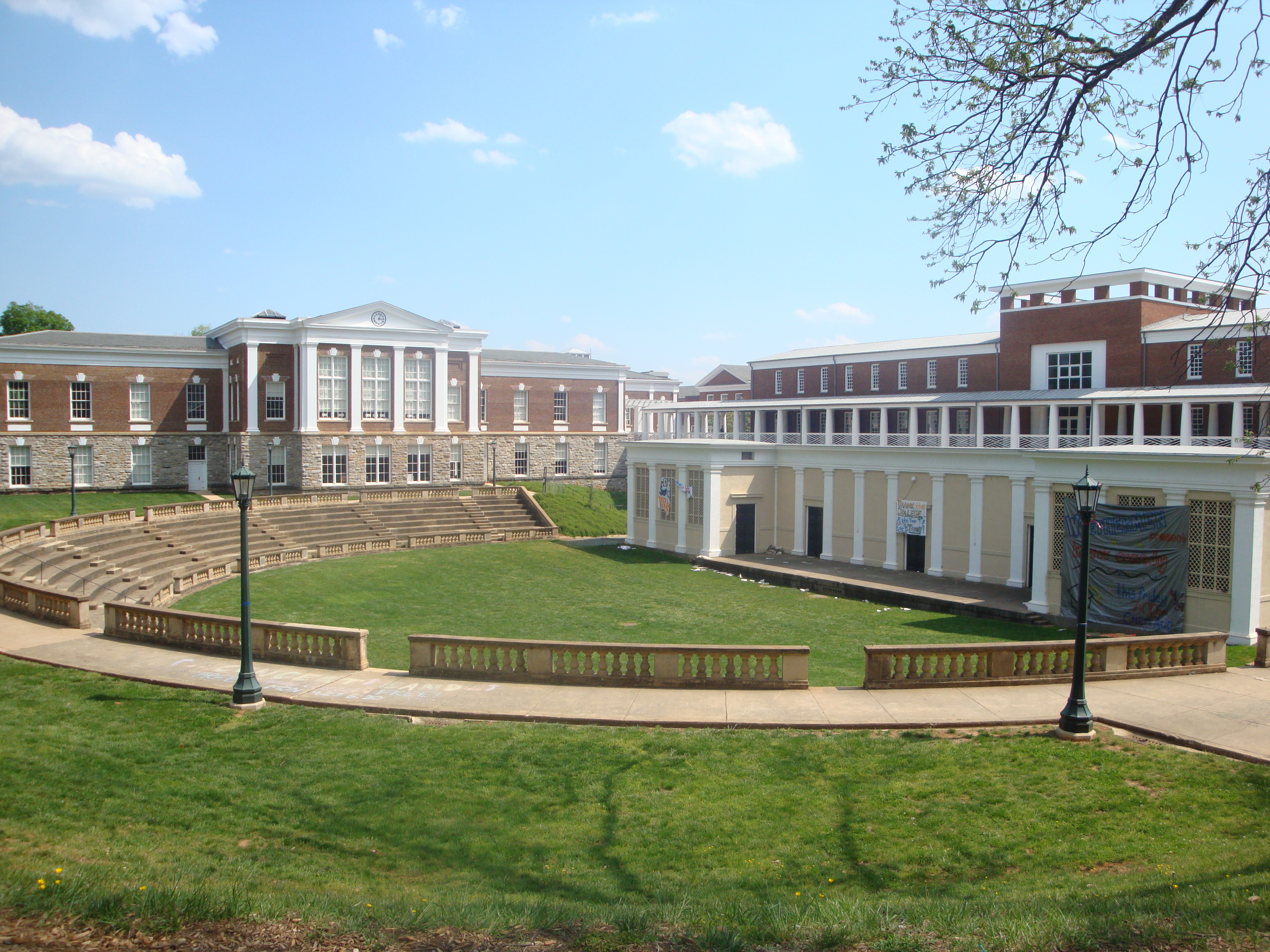 McIntire Amphitheater, University of Virginia, Charlottesville, VA